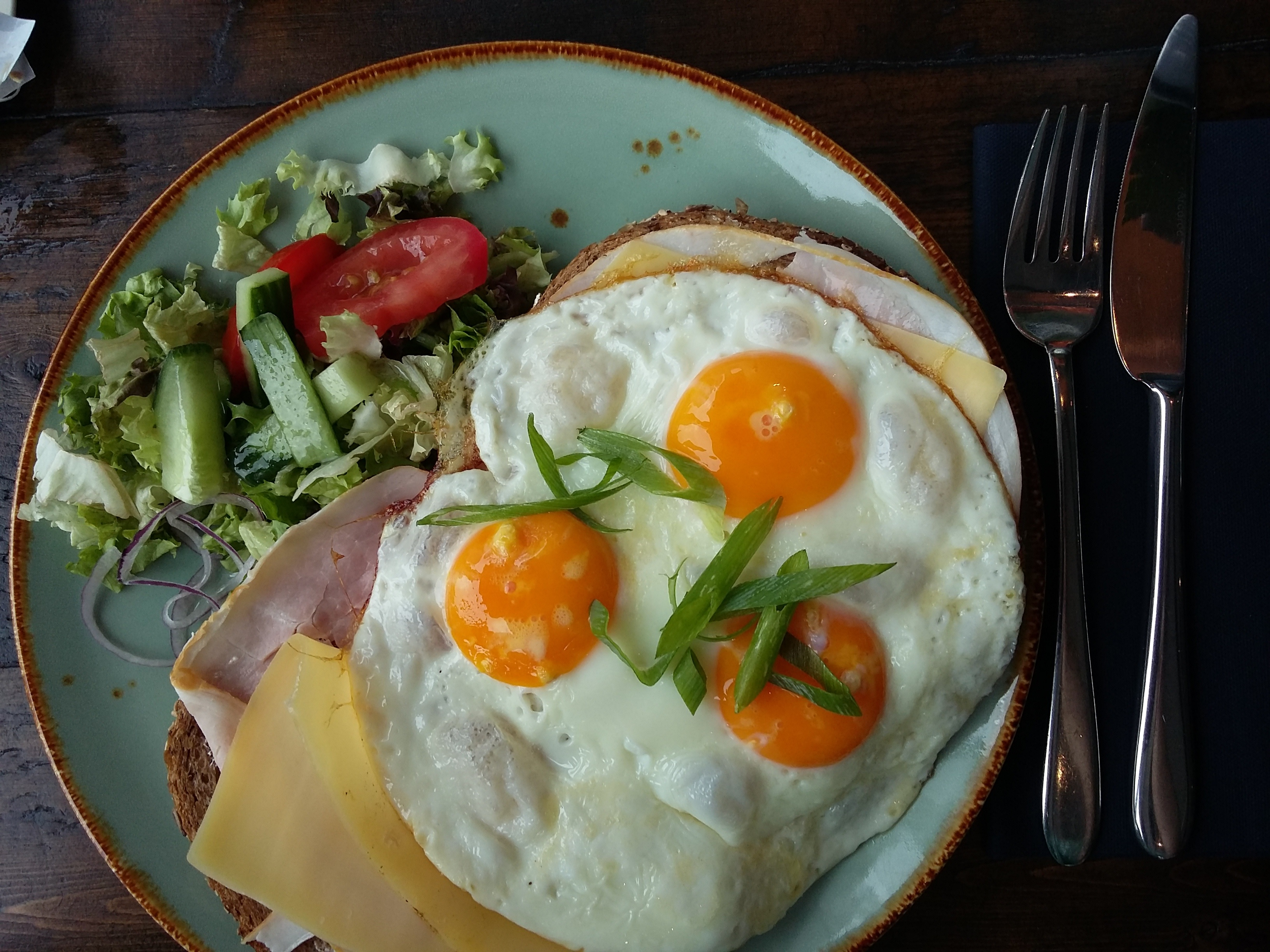 Strammer Max